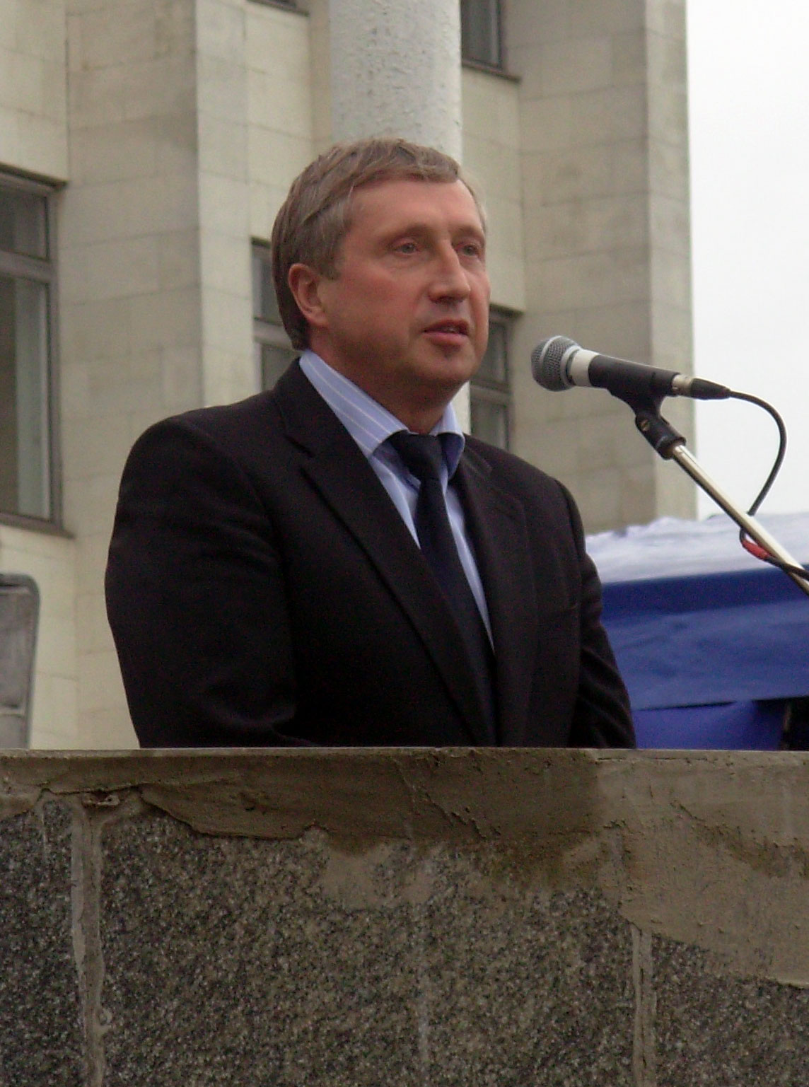 Mykhailo Zgurovskyi, rector of NTUU KPI